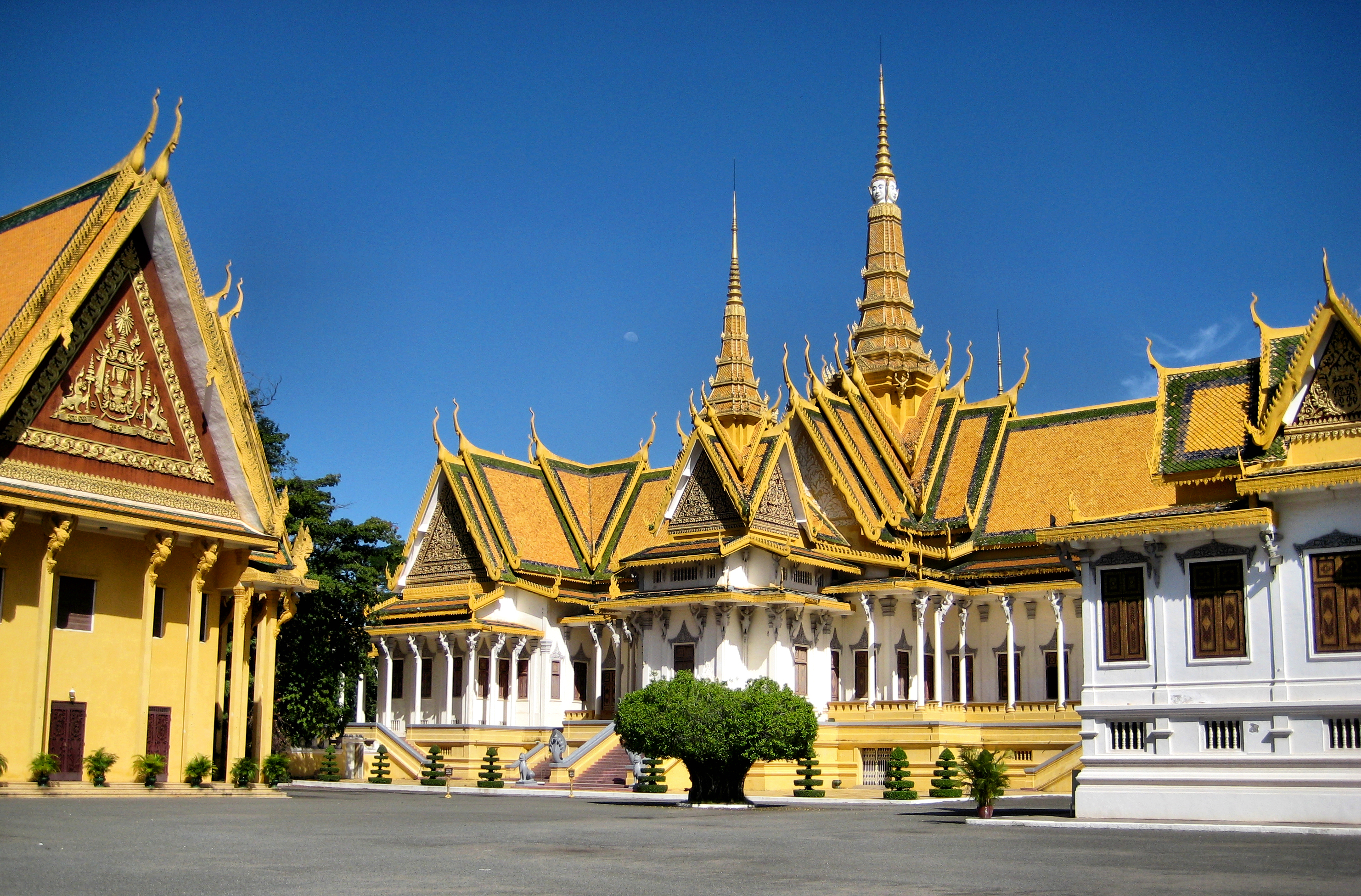 Another View of Royal Palace